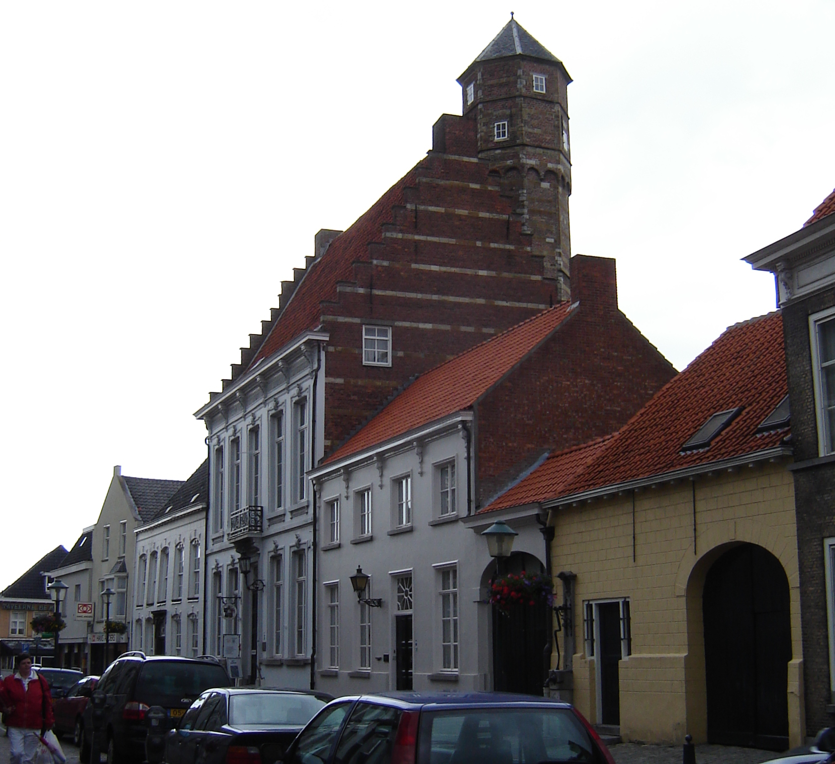 "Museum de Vier Ambachten" in Hulst. Building is former refugium of the Abbey Our Lady Ten Duinen (Koksijde, Belgium). Nowadays a museum. Hulst, Zeeland, Netherlands.